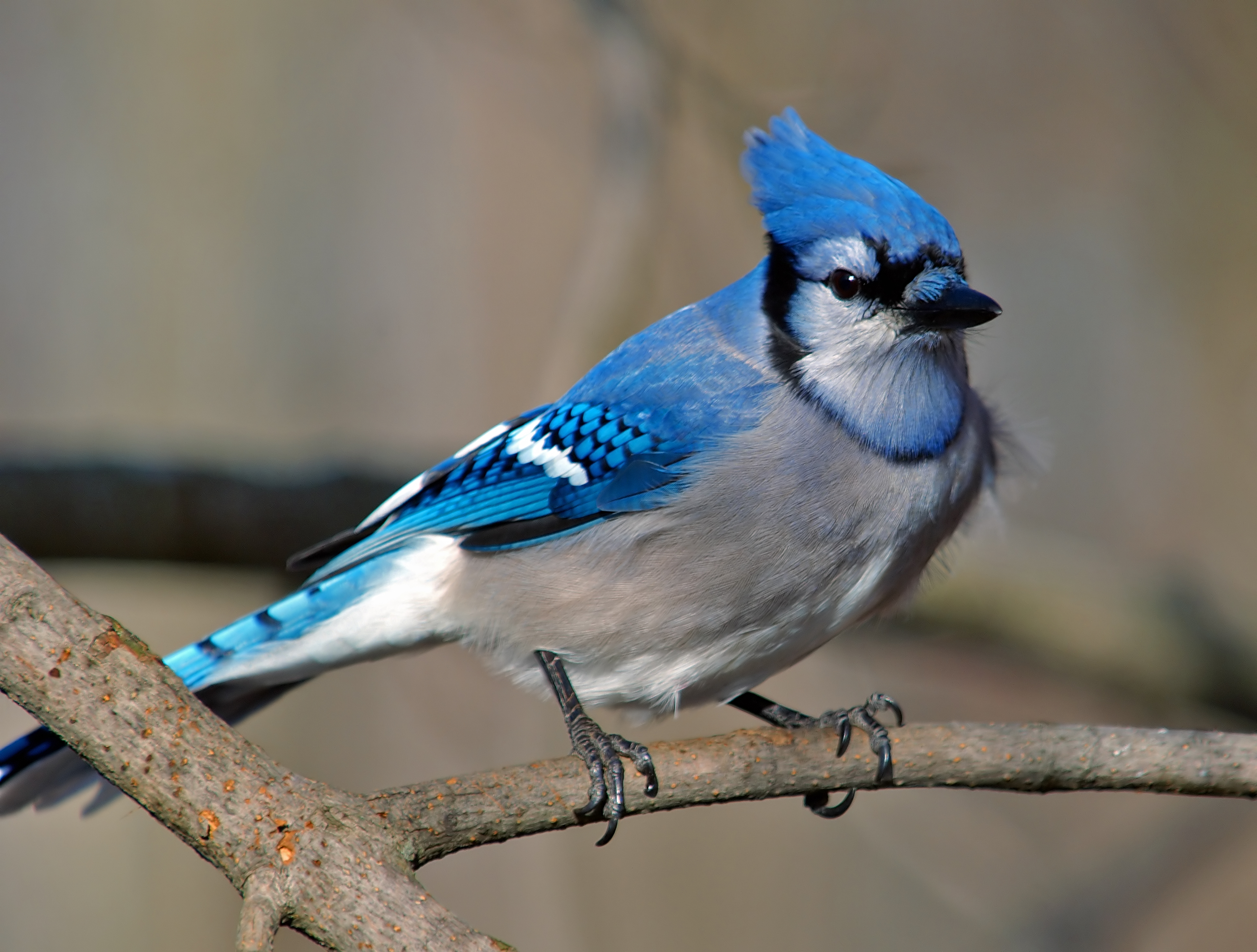 Blue Jay Cyanocitta cristata Welland, ON Canada